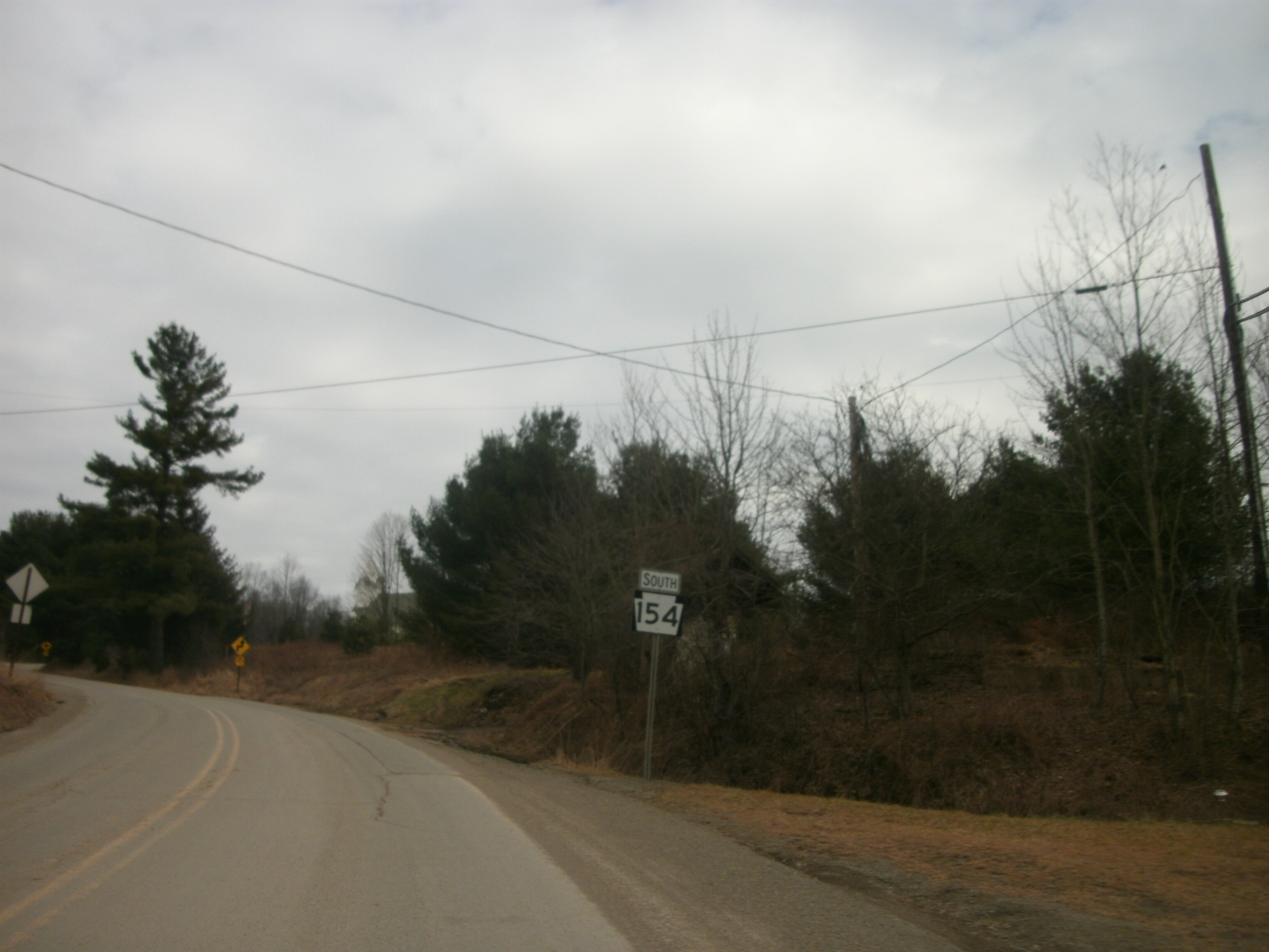 Route 154 heading southbound through Fox Township, Sullivan County, Pennsylvania.